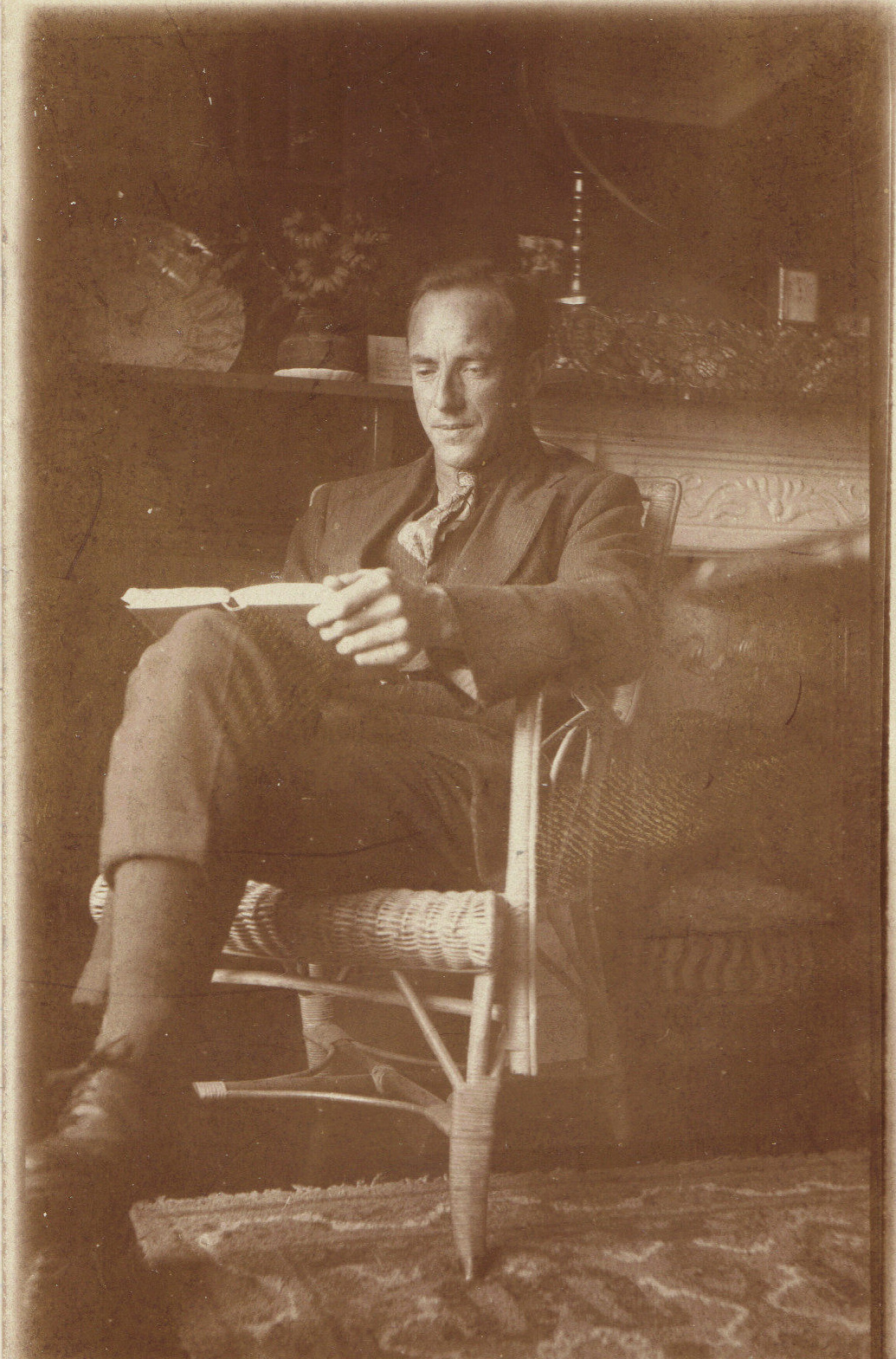 Photographic Portrait of Charles Kennedy Scott, in 1925.